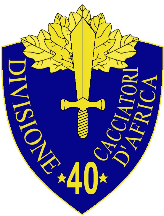 40a Divisione Fanteria Cacciatori d'Africa insignia, Regio Esercito, Italy, WWII